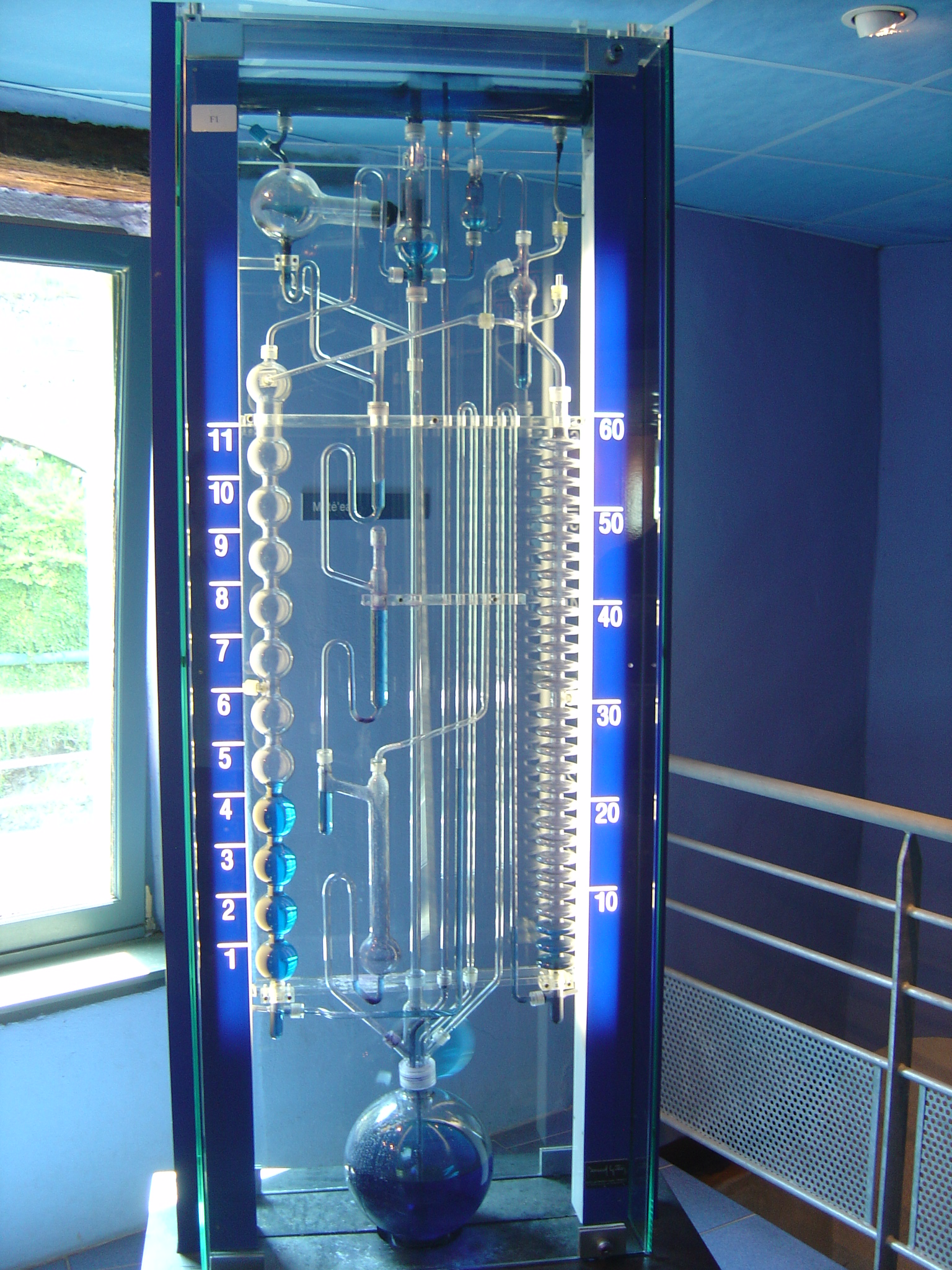 Modern water clock (clepsydre) museum Noria, espace de l'eau in Saint-Jean-Du-Bruel (FRANCE) I took this photo in july 2006